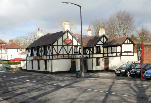 The Hollybush, Coryton, Cardiff Located on Pendwyallt Road, viewed from near the Pantmawr Road junction.